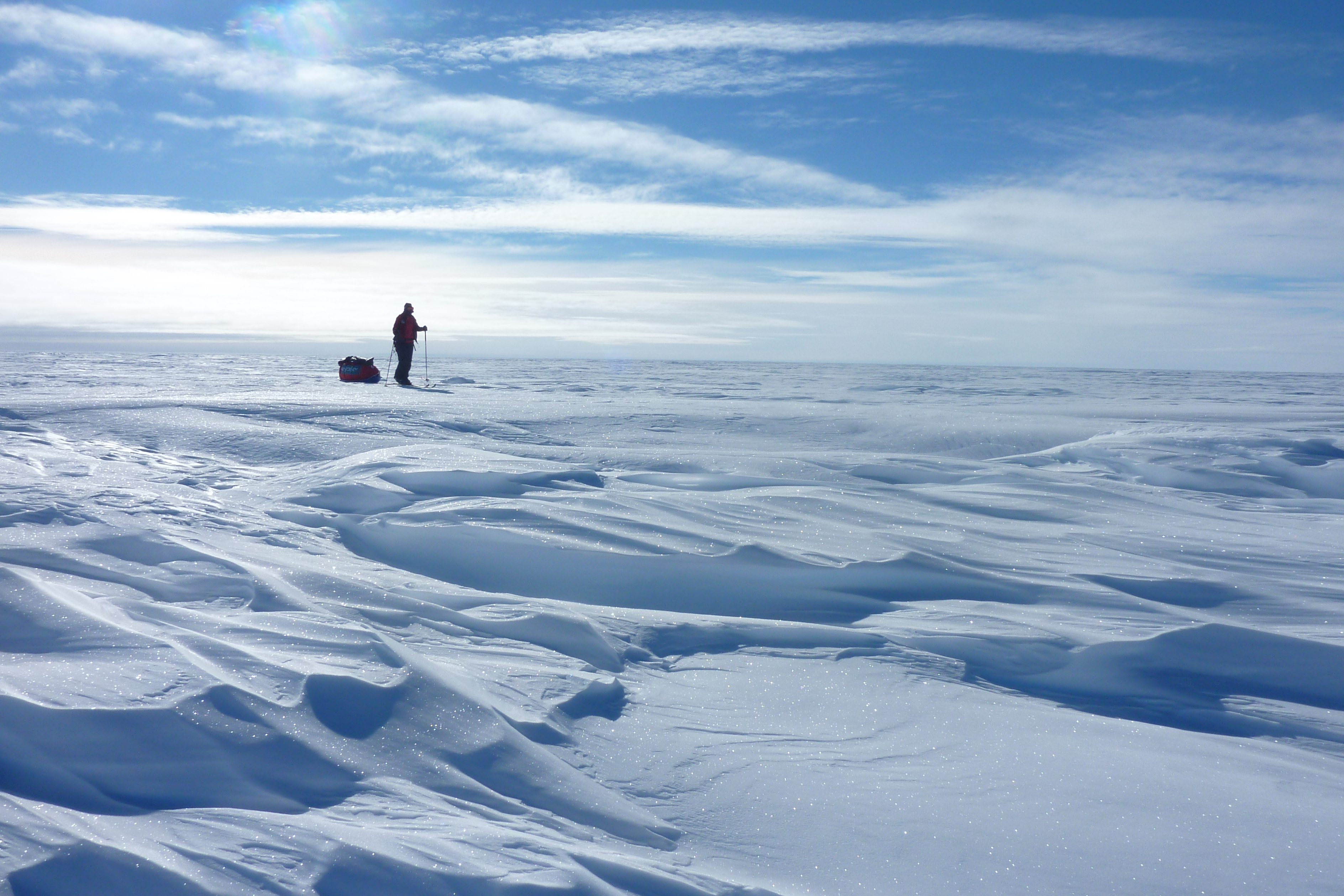 Image of Felicity Aston in Antartica